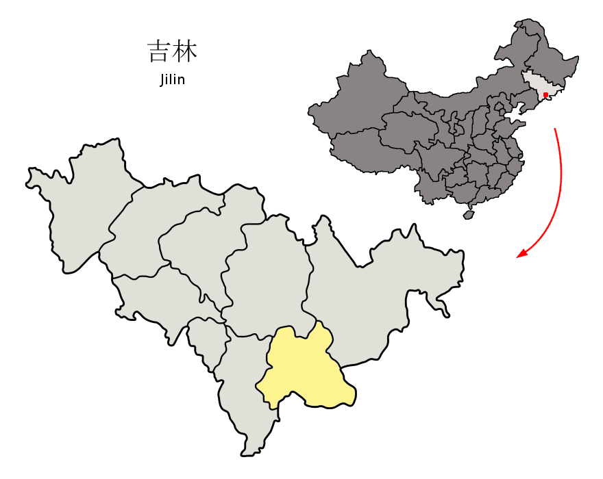 Location of Baishan Prefecture (yellow) within Jilin Province of China Map drawn in november 2007 using various sources, mainly : Jilin Province administrative regions GIS data: 1:1M, County level, 1990 Jilin Counties map from